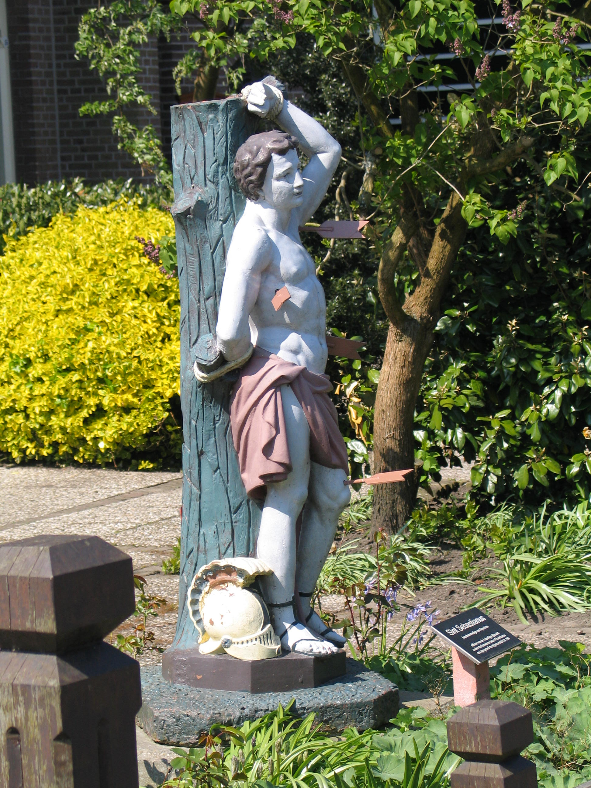 saint sebastian in ilpendam (north holland)